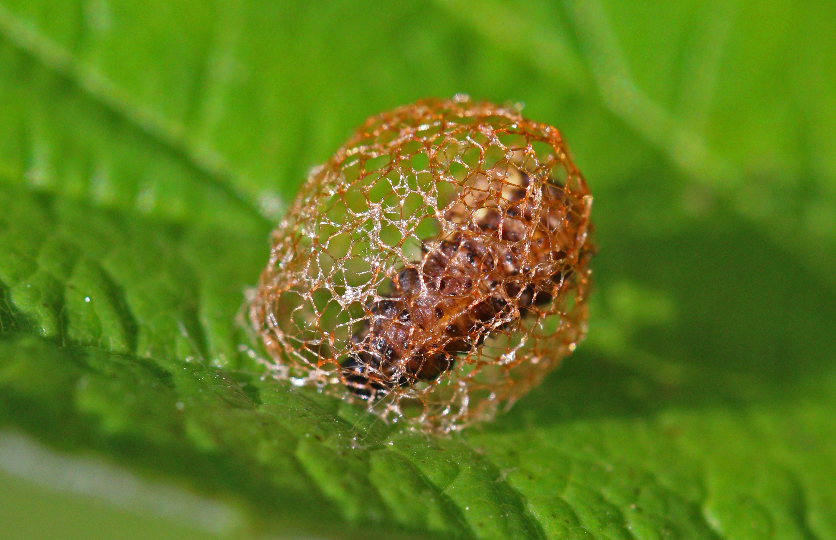 Weevil (Hypera rumicis) larva, Otmoor, Oxfordshire